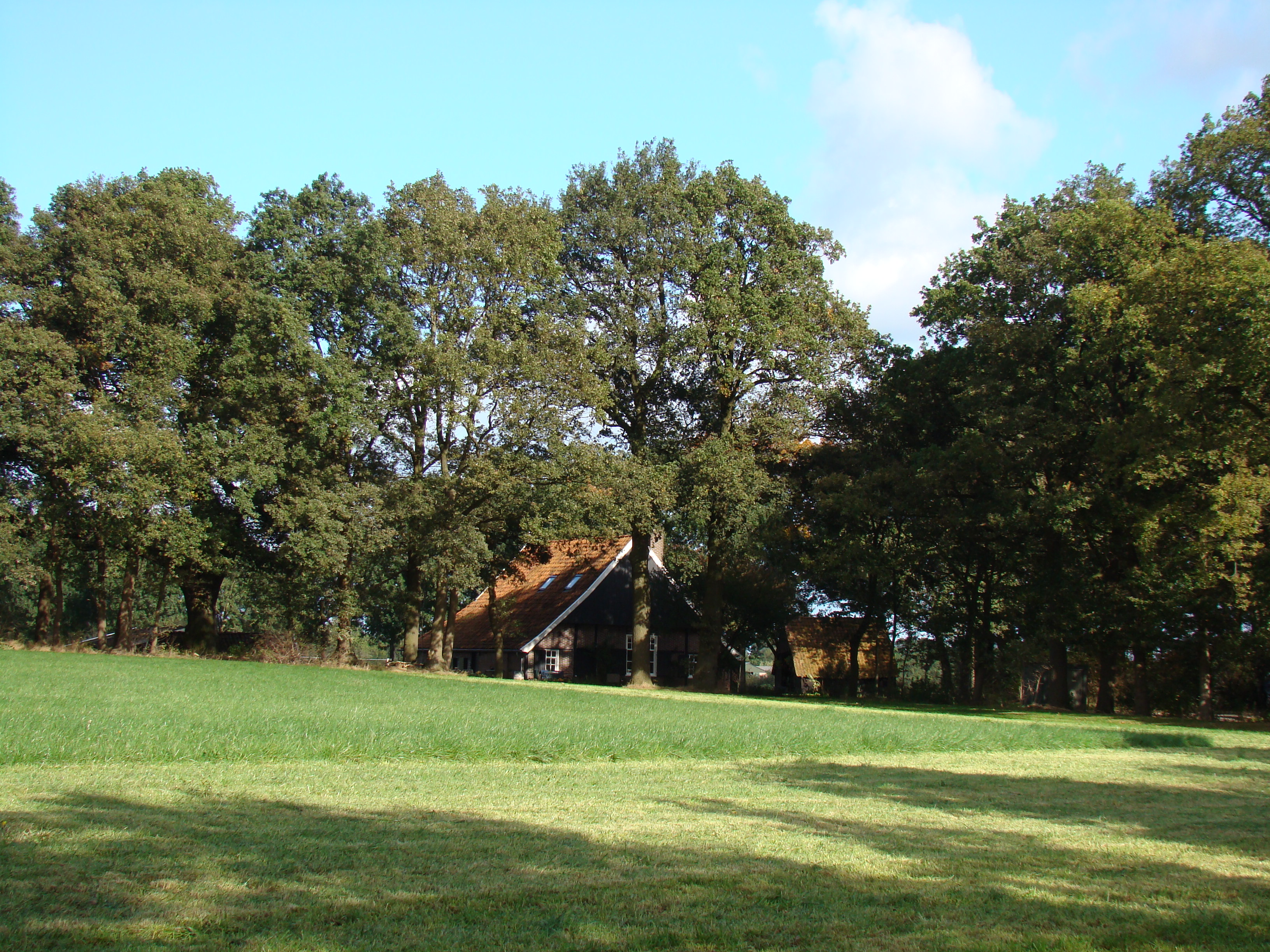 Farmhouse Eskes, near Bredevoort, Netherlands